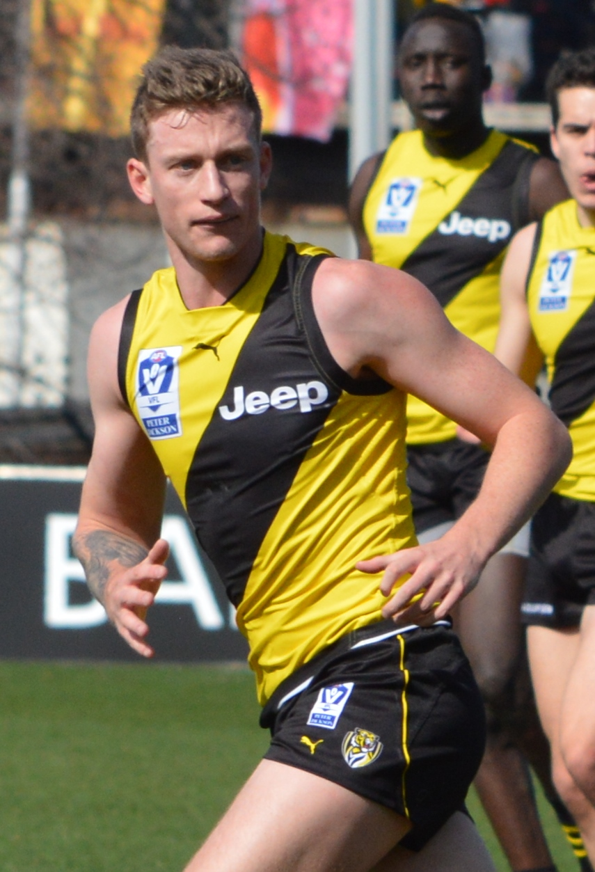 Connor Menadue during a VFL match in August 2017